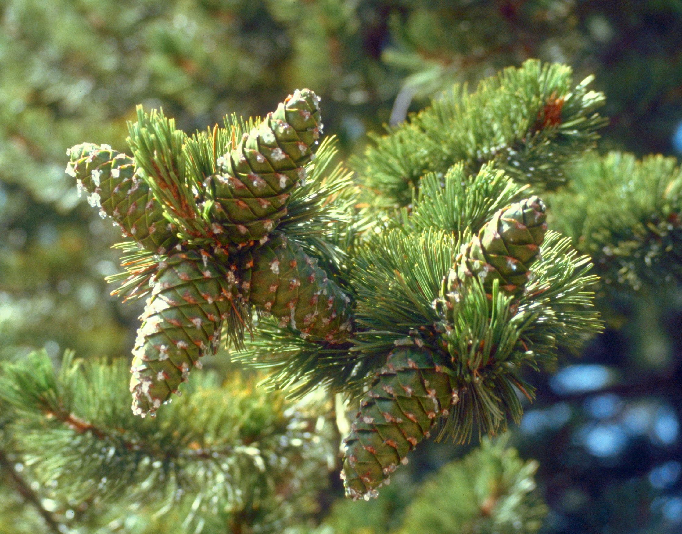 Pinus flexilis foliage and cones in summer. Pike and San Isabel National Forests, south-central Colorado